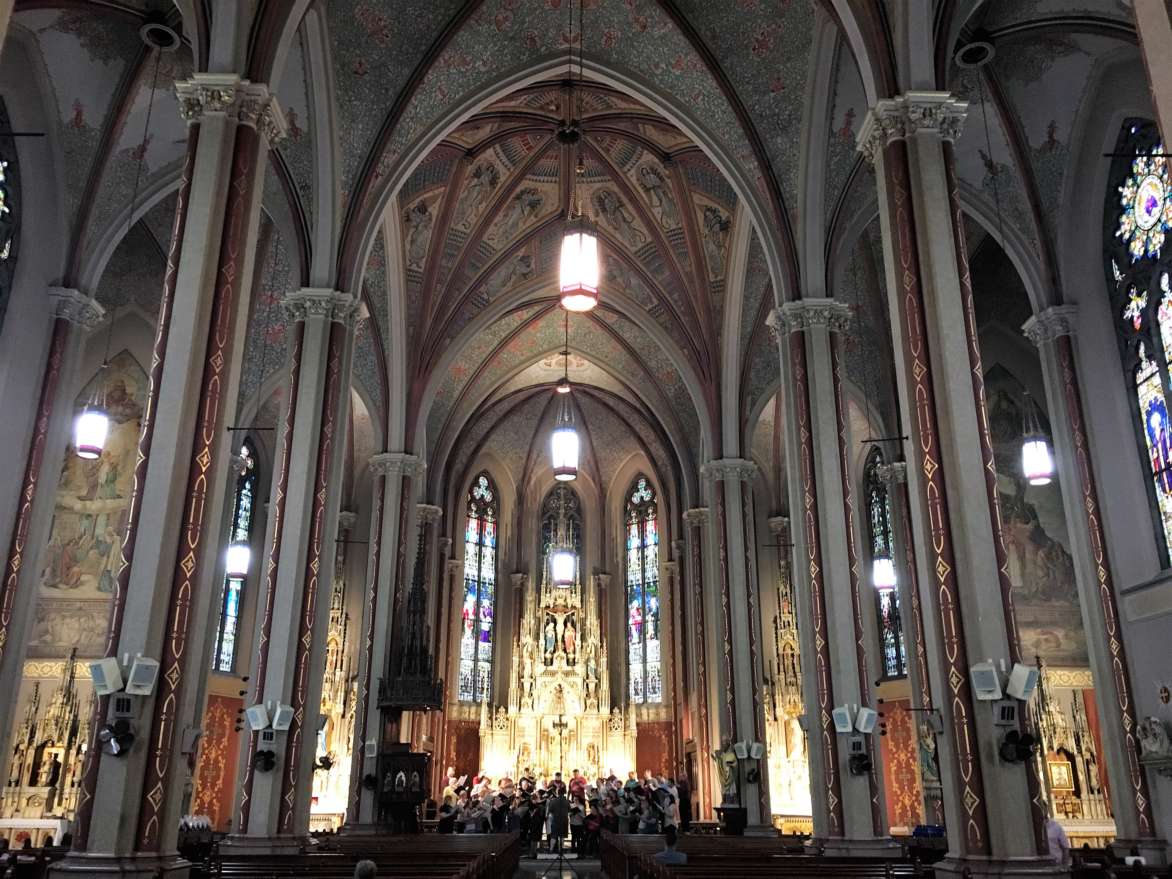 Interior of 1867 Oratory of St. Francis de Sales, in St. Louis, Missouri. In this photo, the Saint Louis Chamber Chorus is rehearsing.